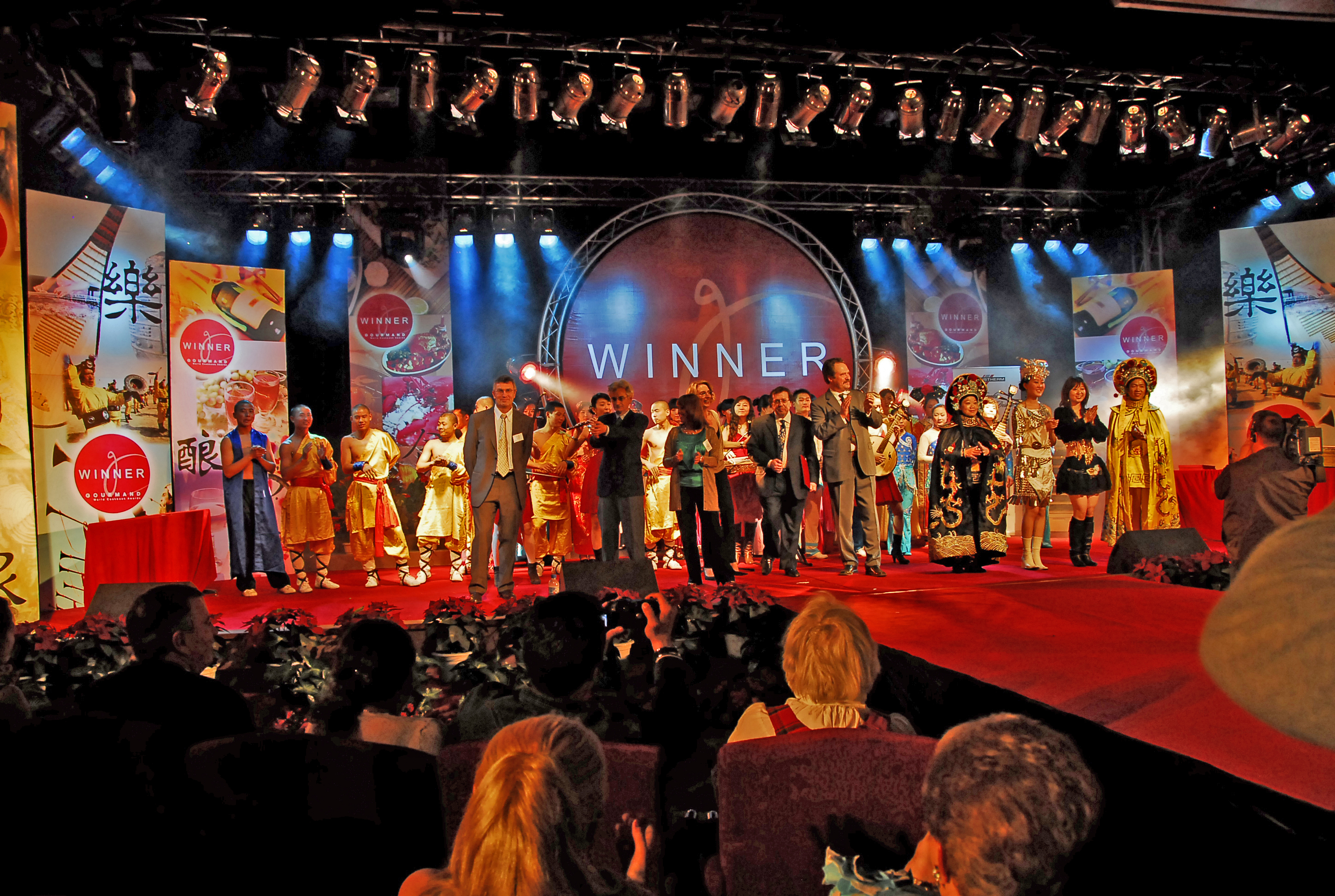 gourmand awards in beijing